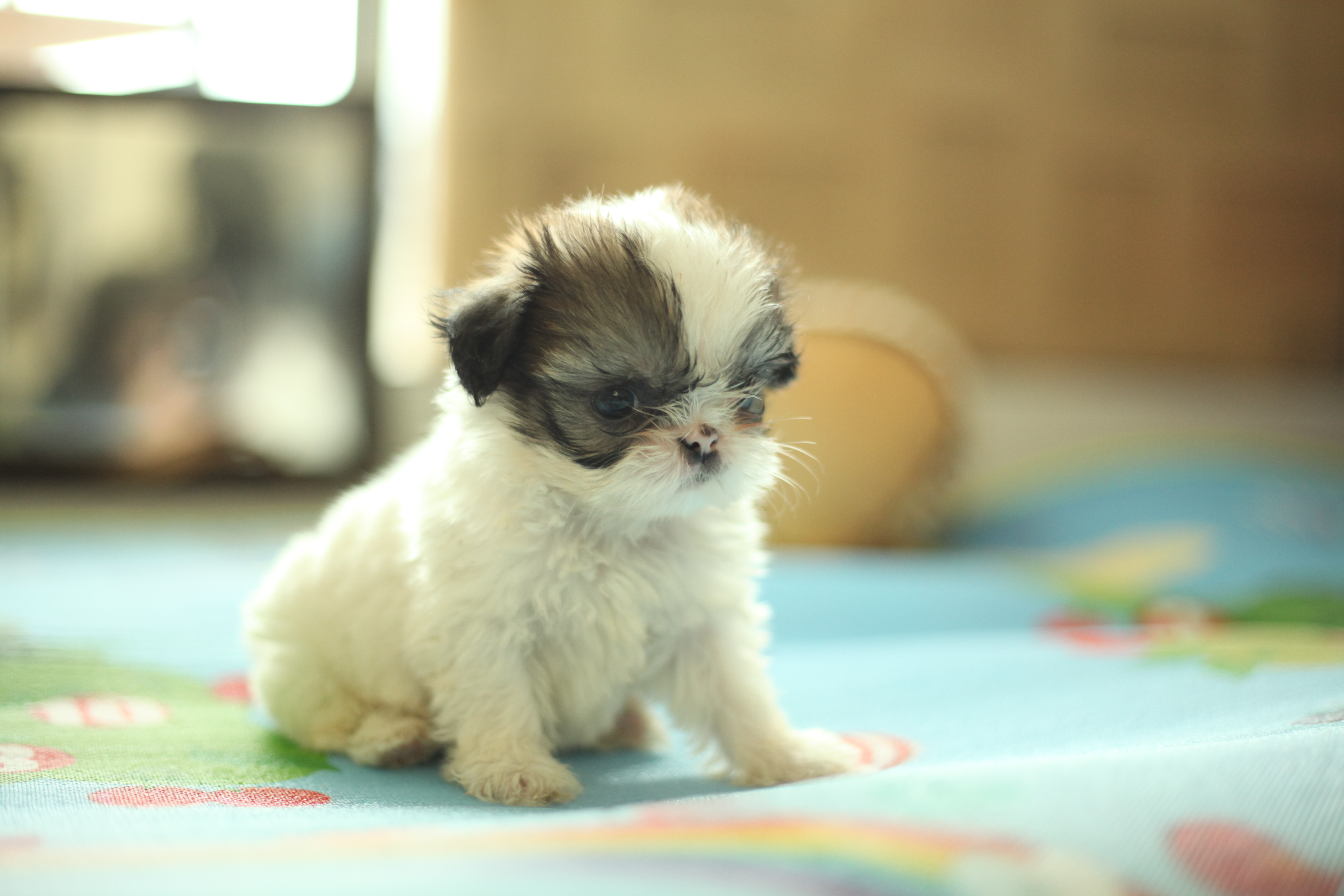 Shih tzu puppies